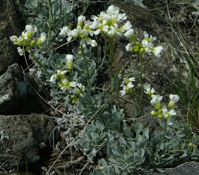 Galitzkya spathulata in Mugodzhar Hills